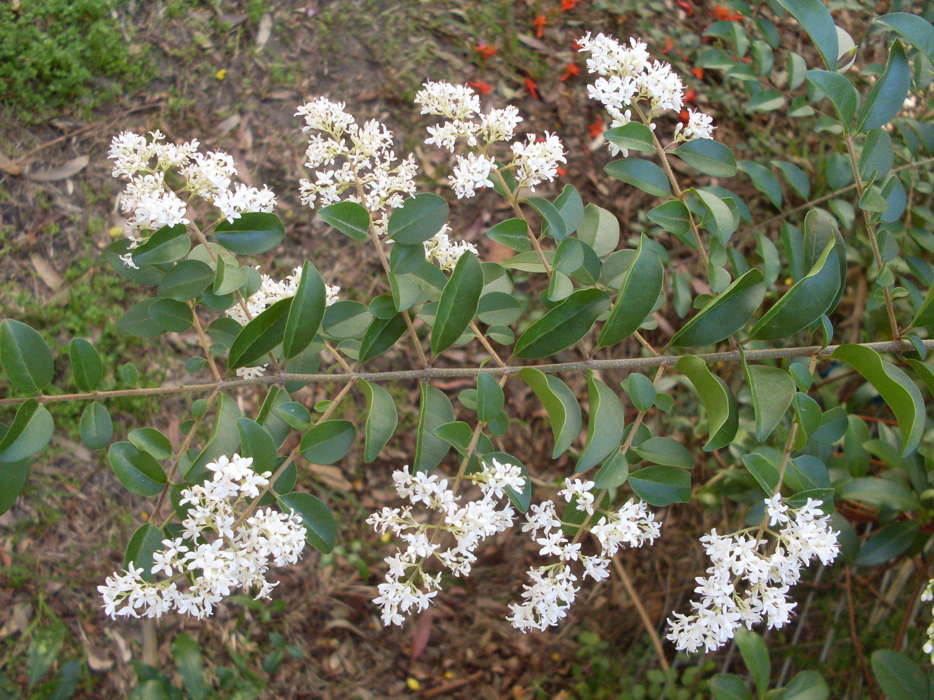 Small-leaf privet (Ligustrum sinense). A noxious weed. The flowers are in small bunches on opposite sides of a branch. Como NSW Australia, October 2009.